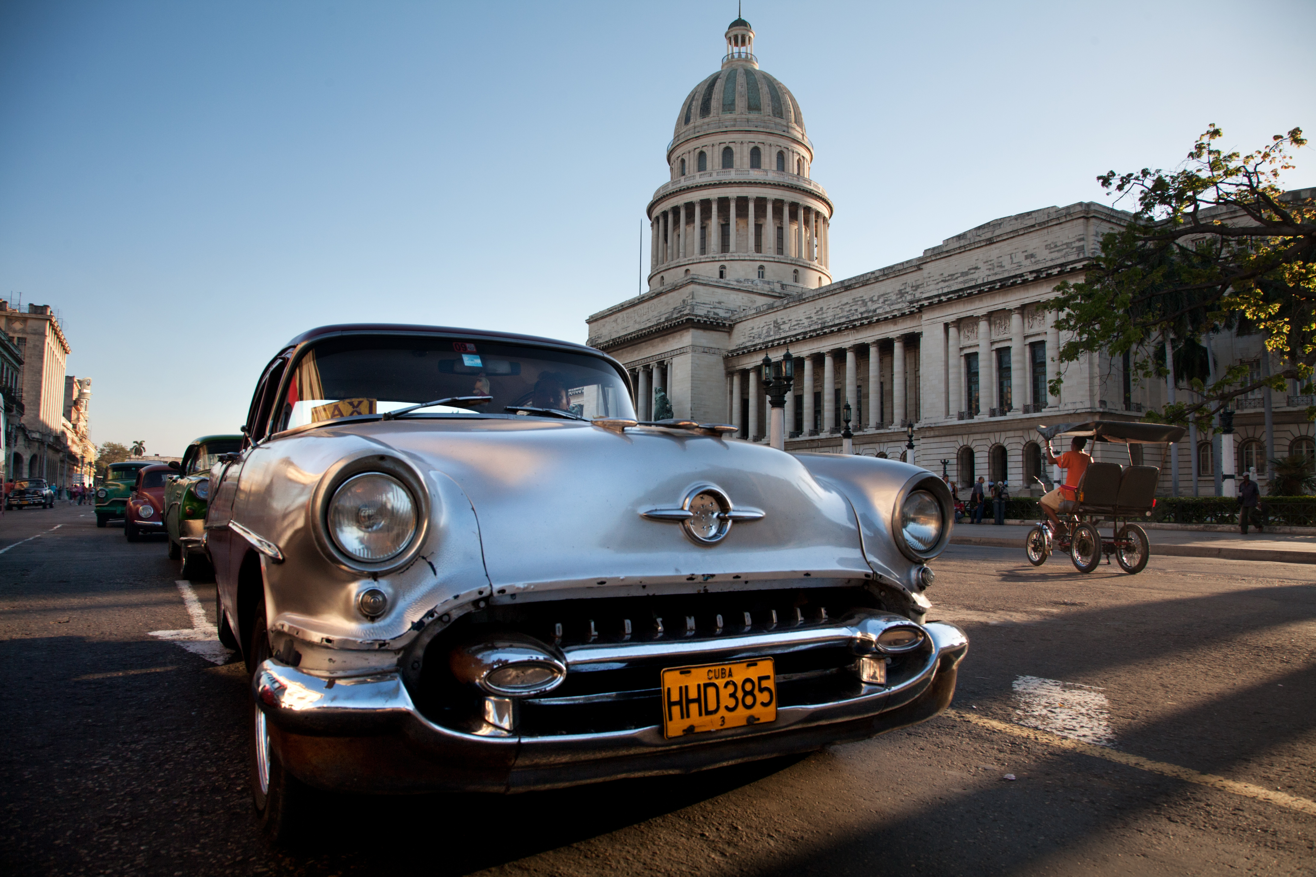 Vintage Oldsmobile in front of the Capitolio. Havana (La Habana), Cuba